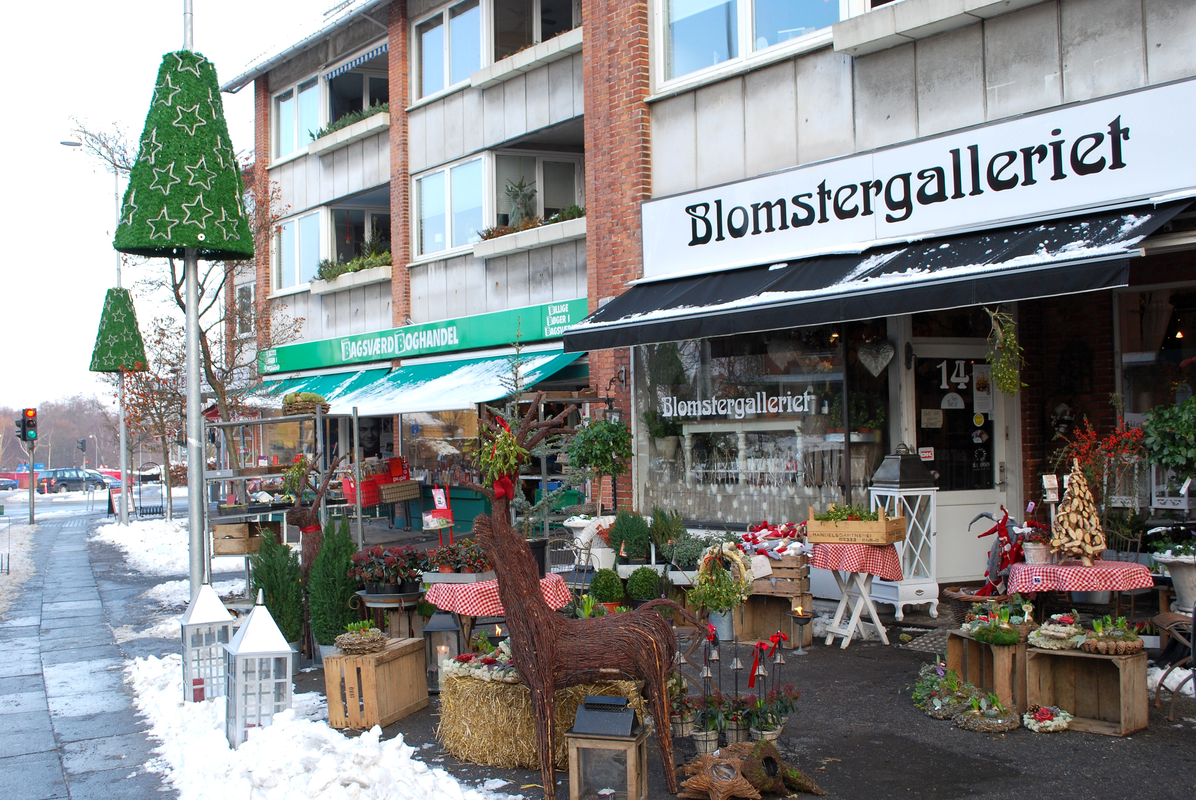 Bagsværd - Copenhagen - Denmark